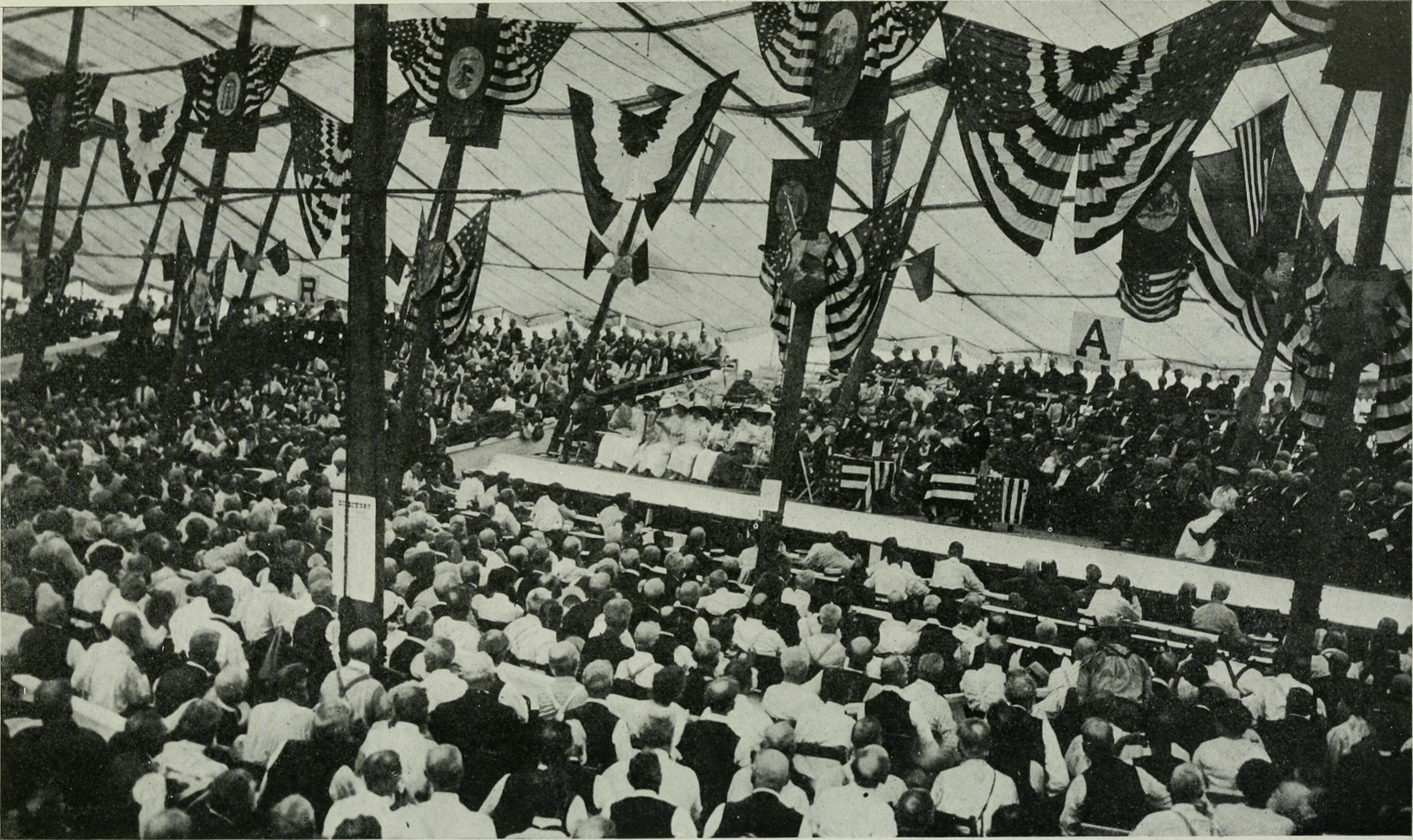 Title: Pennsylvania at Gettysburg : ceremonies at the dedication of the monuments erected by the Commonwealth of Pennsylvania to Major General George G. Meade, Major General Winfield S. Hancock, Major General John F. Reynolds and to mark the positions of the Pennsylvania commands engaged in the battle Year: 1914 (1910s) Authors: Pennsylvania. Gettysburg Battle-field Commission Nicholson, John Page, 1842-1922 Beitler, Lewis Eugene, 1863- Subjects: Gettysburg, Battle of, Gettysburg, Pa., 1863 Gettysburg Reunion, 1913 Publisher: (Harrisburg : W. S. Ray, state printer) Text Appearing Before Image: ress deliveredhere; and last, this assemblage, the deep spiritual significance ofwhicli can scarcely be exaggerated. So we have body, mind andspirit, each displaying its distinctive characteristics to their fullestextent upon this small stage of the worlds great theatre. Fifty years ago today, there began here one of those conflicts be-tween man and man, marked by such exhibitions o*f valor, courageand almost superhuman endurance as to engrave itself upon thetablet of history, there to remain ever memorable. Equal met equal;and in the domain of physical prowess all were worthy of medals ofhonor. The superiority was that of resources, not of individualstrength or courage. So long as men love valor land worship heroes,the name of Gettysburg, and of those who fought there, will be everon their lips. Four months afterwards, the field of Gettysburg inspired in thegreat mind and heart of Abraham Lincoln the most wonderful prosepoem ever written. Its music literally rang around the world and Text Appearing After Image: '